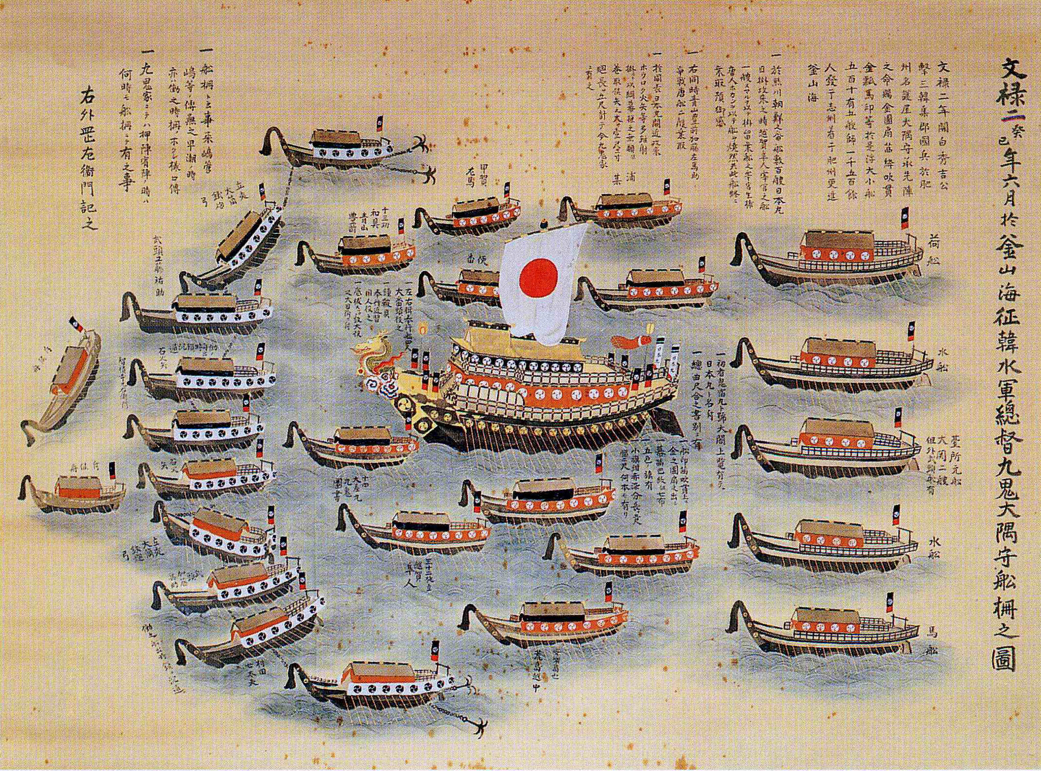 The fleet of Kuki Yoshitaka in 1593. [Description]: Paper book color. 180.4 × 239.6. Osaka Castle castle tower warehouse. It depicts the Kuki Suigun's formation around the Atakebune ship called Nippon Maru built by Yoshitaka Kuki. The Nippon Maru played an active part in the front and rear roles as Yoshitaka Kuki and returned safely. The total length of the Nippon Maru is 99 feet. The diagram depicted has structural problems. The Kuki Suigun was a navy of the Sengoku era. Headquartered in Shima, headed by Kuki. It defeated the powerful Mori Navy (of the Mori clan daimyo) in the Second Battle of Kizugawaguchi (1578) and seized control of the Kinki area as a navy of Nobunaga Oda.